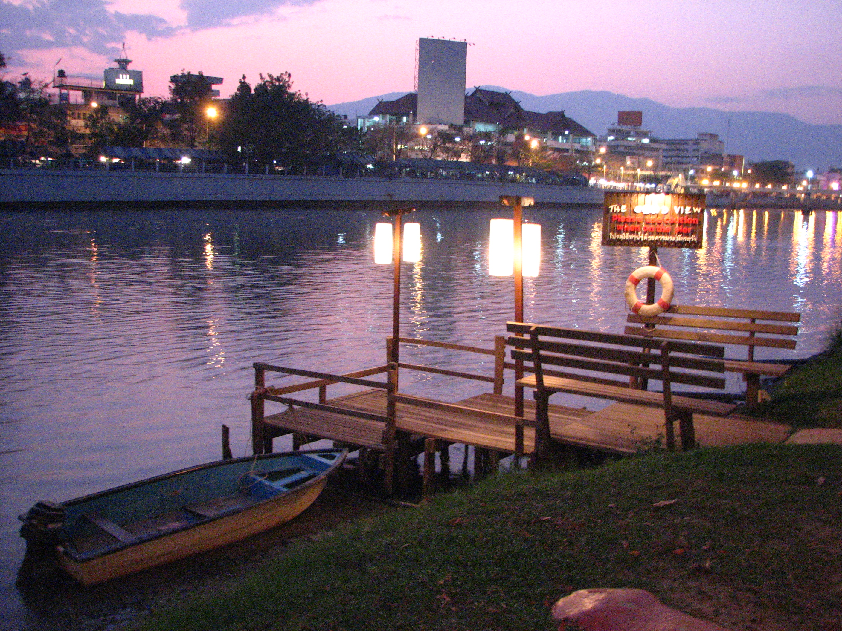 Ping River scene